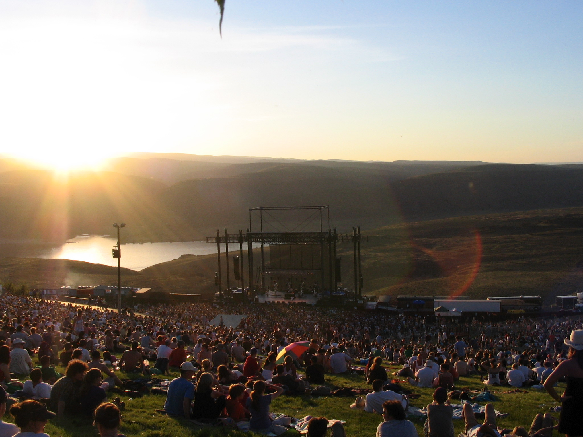 The Gorge, excepting its wretched food, is über fantastico!